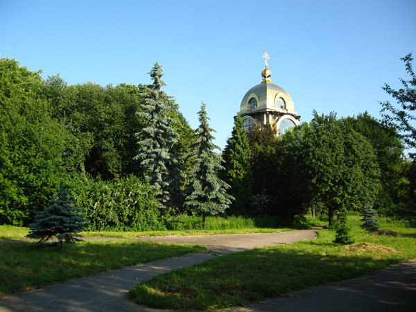 Lviv, park "Bondarivka", St. Boris and Gleb church